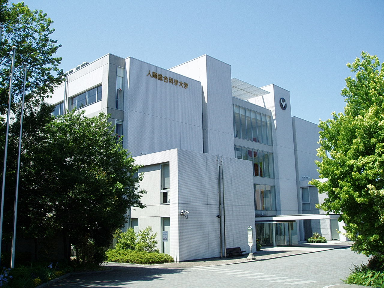 The main building of Hasuda Campus, the University of Human Arts and Sciences, located in Magome, Iwatsuki-ku, Saitama, Saitama Prefecture, Japan.